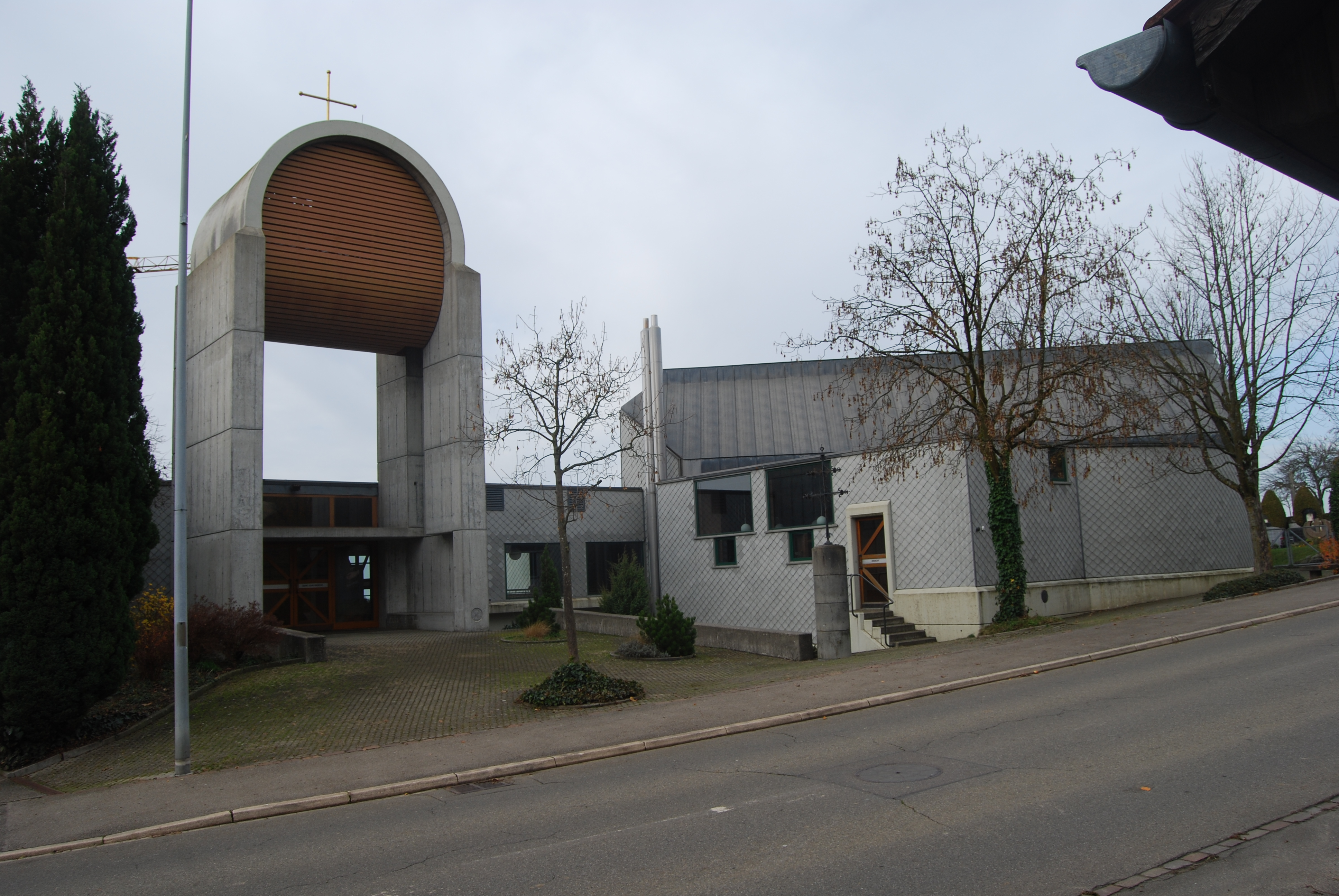 Church of Bellikon, canton of Aargau, SwitzerlandEsperanto: Preĝejo de Bellikon, Kantono Argovio, Svislando